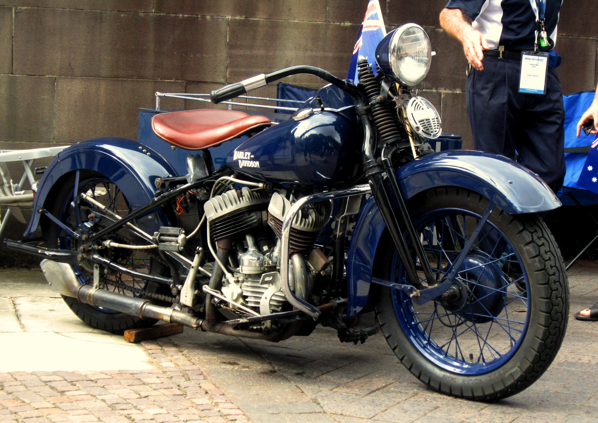 Here is just a sample of over 1000 of the highlighted classics on show, on the day.! You can check out a video preview of the NRMA Motorfest 2011 highlights here; You can also check out the latest NRMA car reviews and tests here at